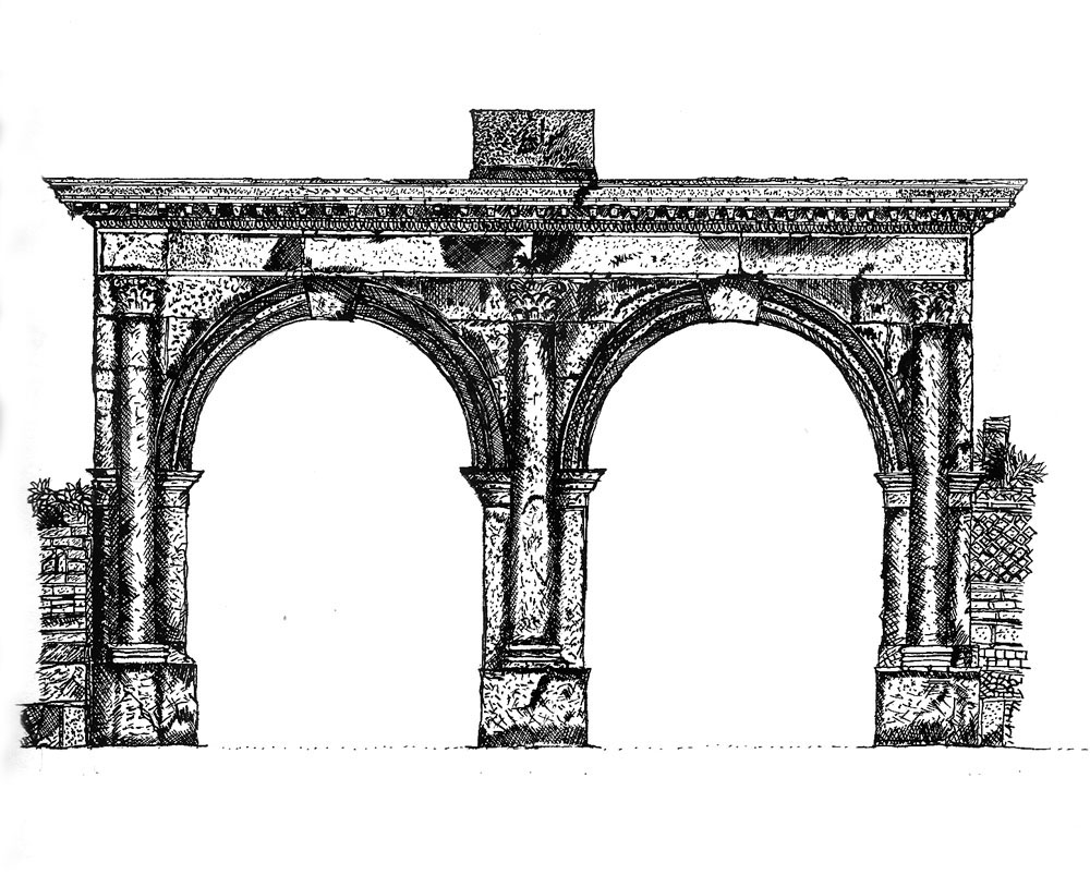 Pen and ink drawing - Porta Gemina